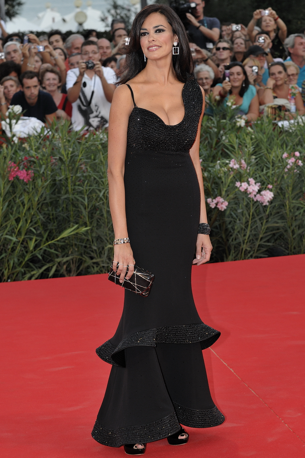 Maria Grazia Cucinotta at the closing ceremony of the 2009 Venice Film Festival